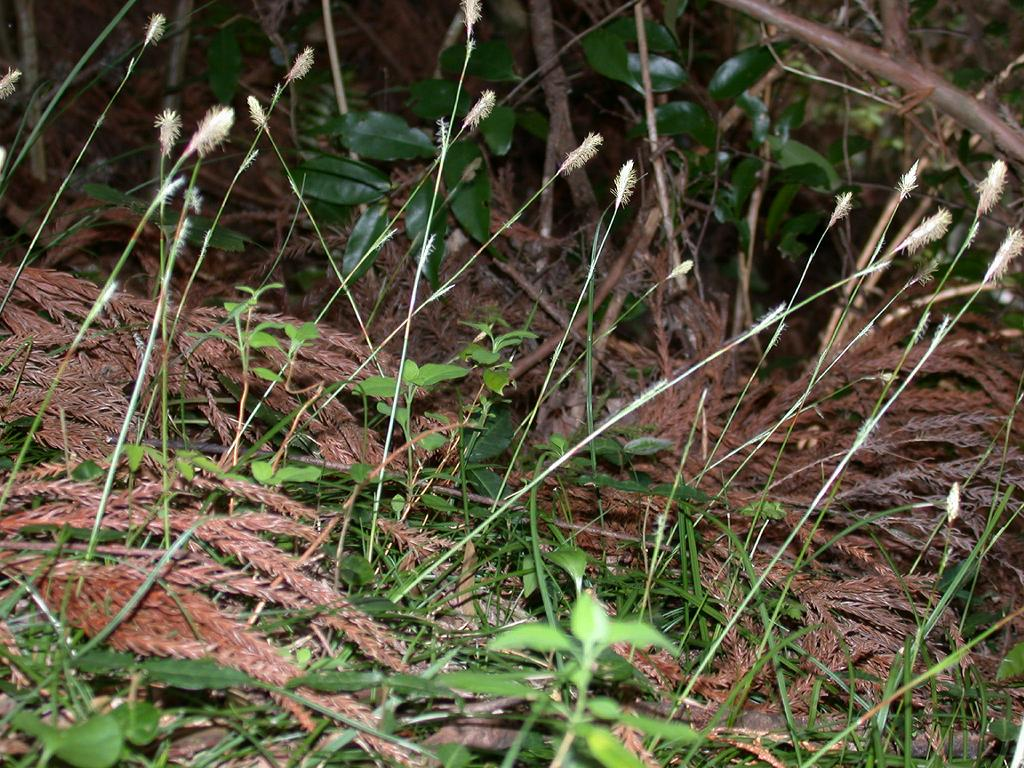 Carex conica(Cyperaceae) Japanese name:Himekansuge Date;2008,04,05;Tanabe city, Wakayama prefecture, Japan Author;Keisotyo